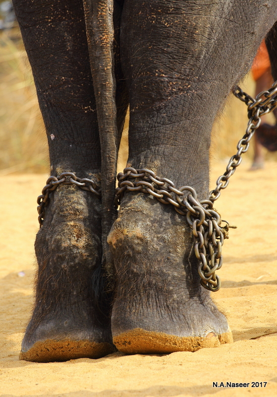 Captive Elephants of Kerala, Cruelty against elephants, Aanapremam, Thrissur Pooram, Festivals of Kerala, Elephants in captivity, Temples of Kerala